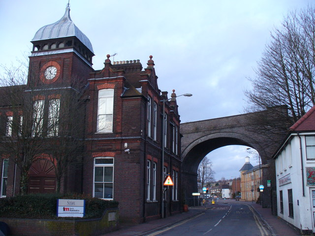 High Arch, High Wycombe Tall railway arch carrying the London - Oxford railway line across a street in central Wycombe. The building on the left was once the High Wycombe Repertory Theatre.